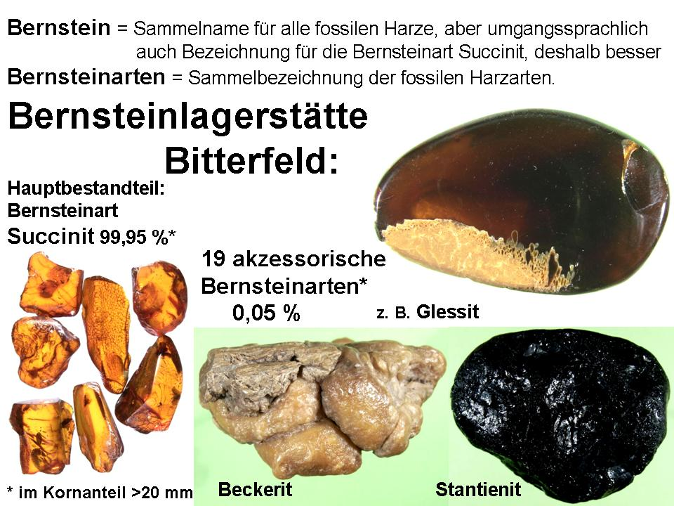 Amber from Bitterfeld, overview